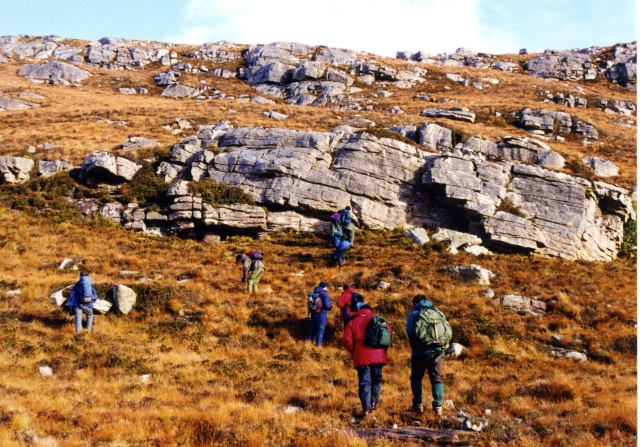 Torridonian- Cambrian Unconformity. Above Lochan Feòir on the lower slopes of Quinag, the Cambrian quartzite (slightly sloping) lies unconformably on the Torridonian sandstone (horizontal). (To find the unconformity, move your mouse cursor over the image).